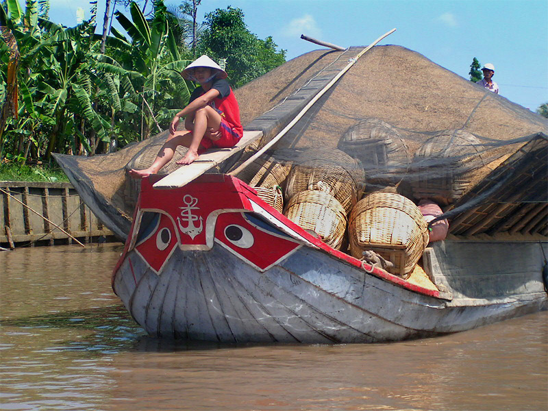 Mekong River Delta, Vinh Long Province, Vietnam.